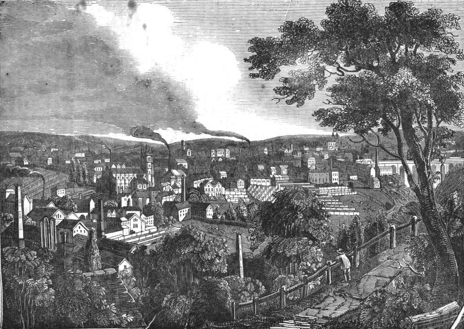 A wood engraving of the town of Halifax, West Yorkshire.